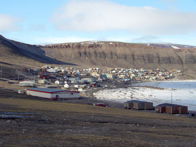 Image depicting the community of Arctic Bay